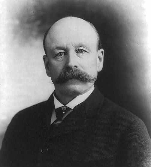 Frederick Thomas Greenhalge (1842-1896), Governor of Massachusetts